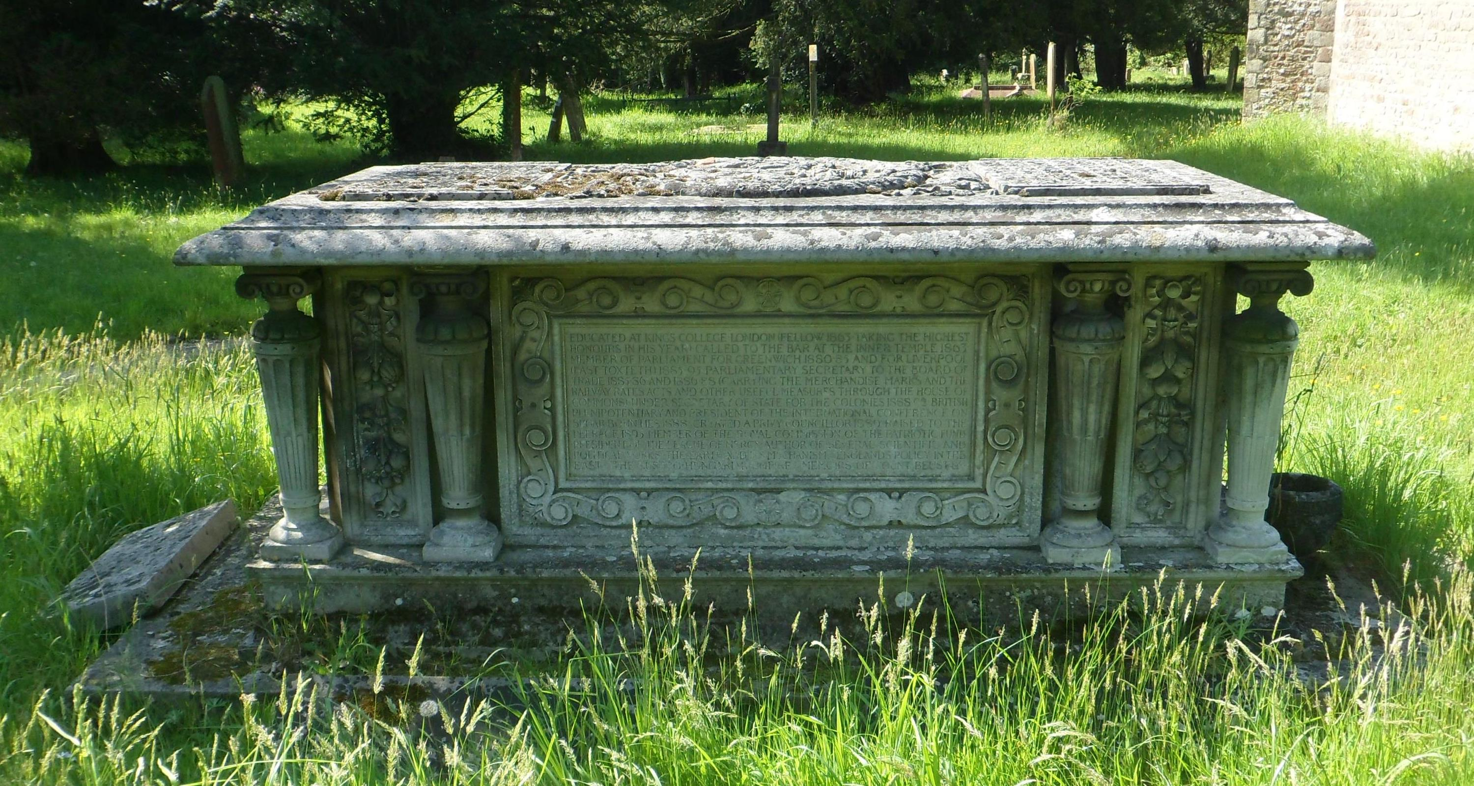 Tomb of the 1st Baron Pirbright at St Mark's Church, Guildford Road, Wyke, Normandy, Borough of Guildford, Surrey, England.